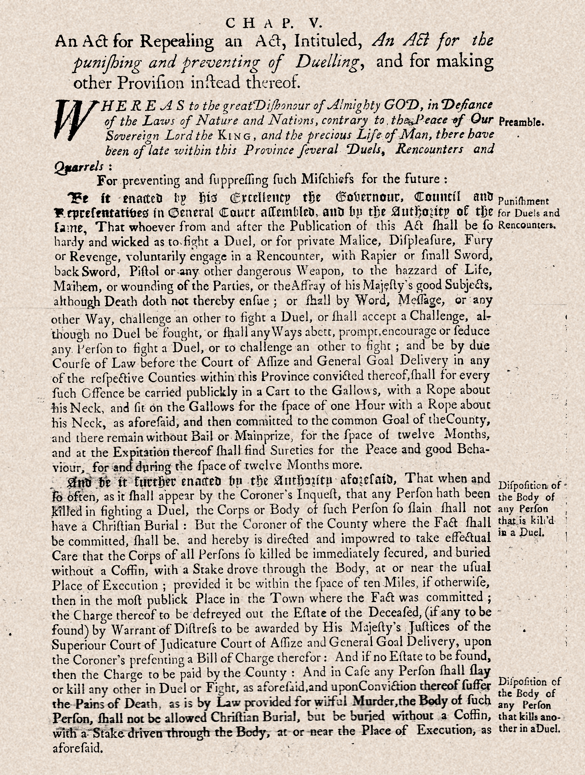 Chap. V. An Act for Repealing an Act, Intitled, An Act for for the punifhing and Preventing of Duelling, and for making other Provifion inftead thereof.